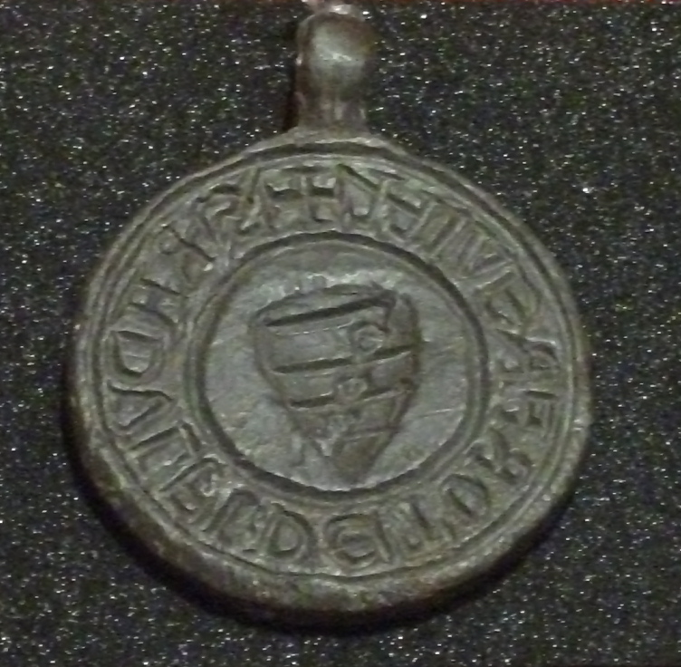 Lead matrix for the seal of French Norman knight Ralph de Torfreville, made around 1200 AD. Excavated from a rubbish pit near the 1224 outer bailey of Bedford Castle and on display in Bedford Museum.